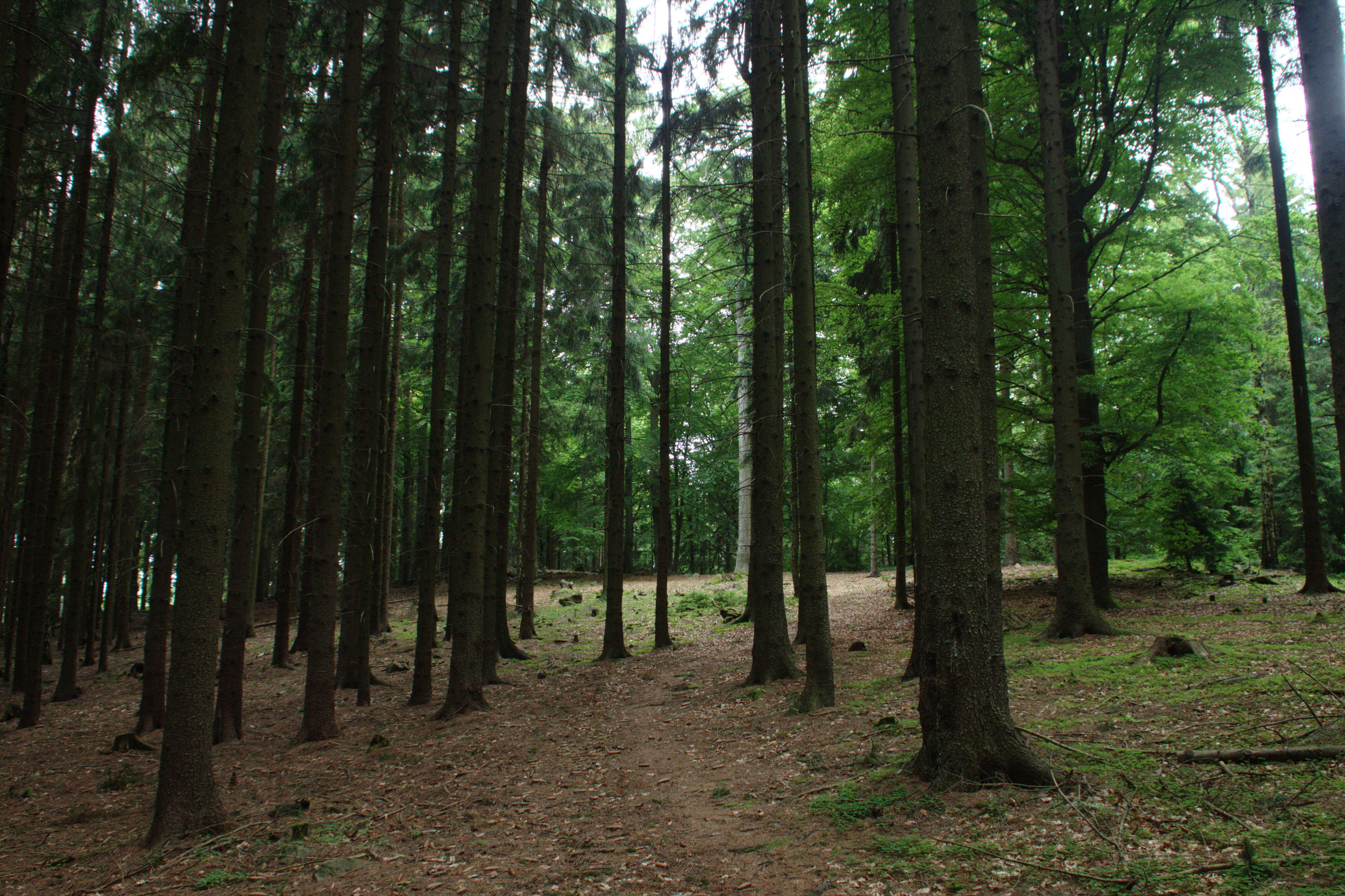 Žebrák Hill near the town of Líšno, Central Bohemian Region, CZ